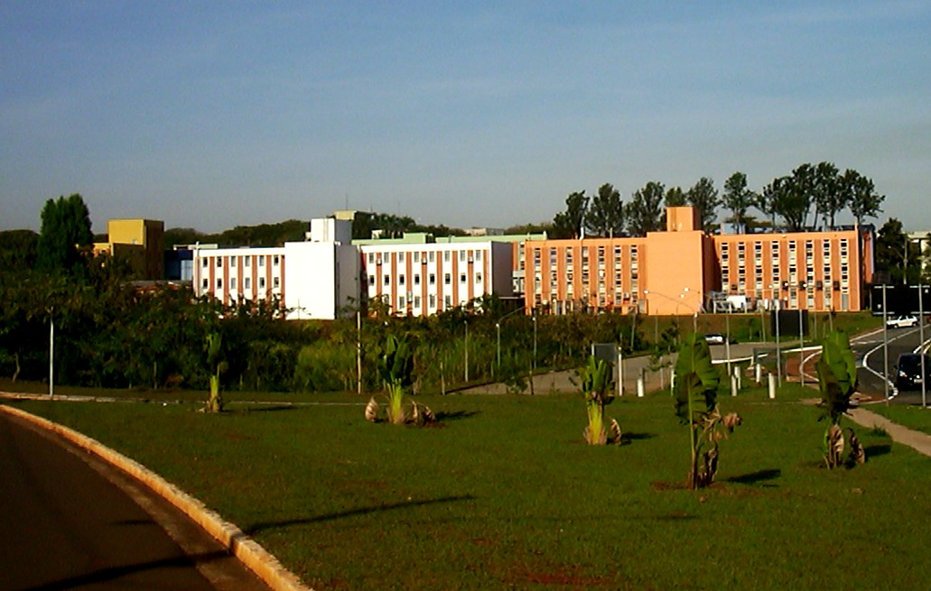 Buildings of the School of Chemical Engineering of the State University of Campinas, in Campinas, state of São Paulo, Brazil. Photo made on July 23, 2006 by Prof. Renato M.E. Sabbatini, PhD, and uploaded by the author, reproduced with permission.